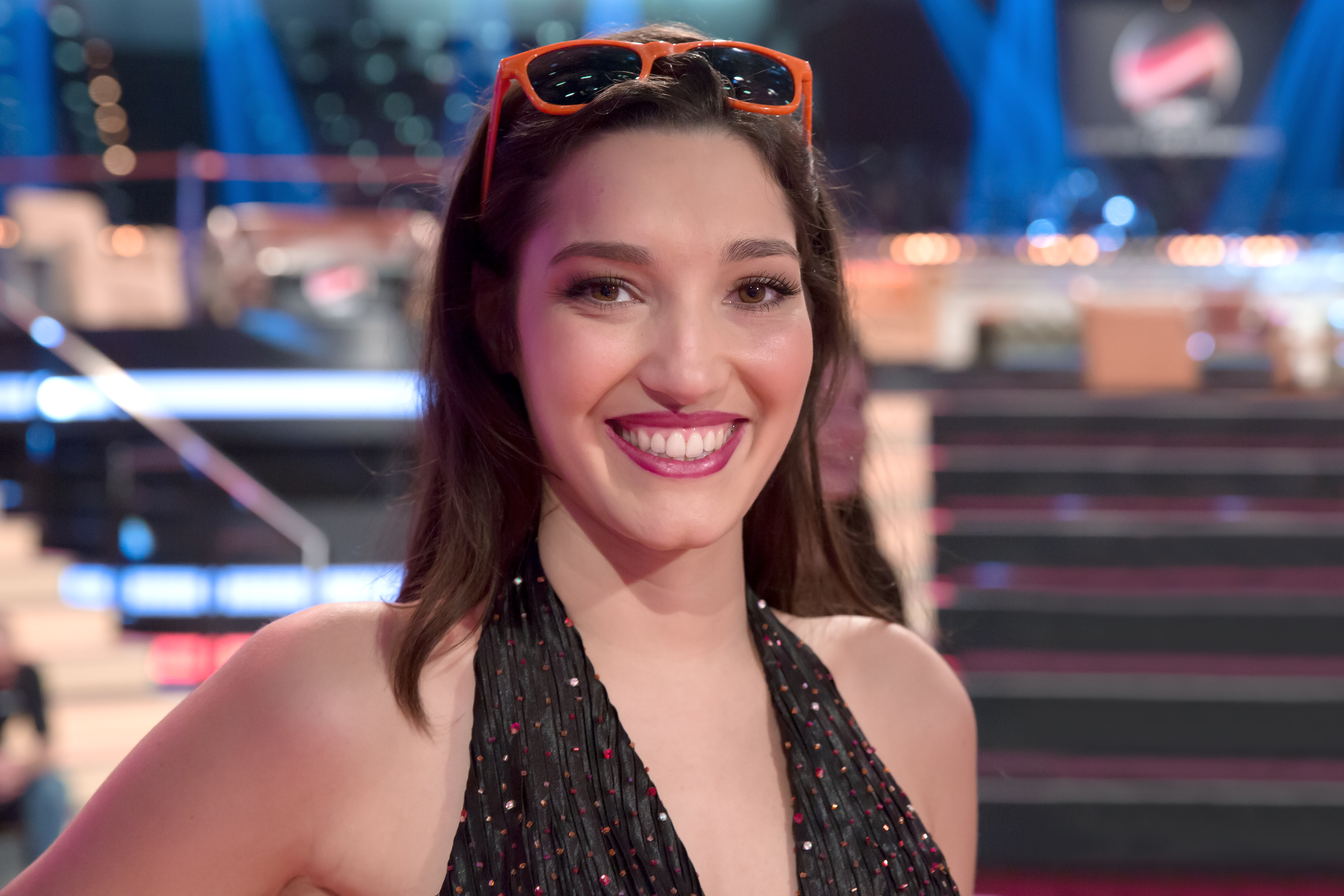 Celina Ann after the final show of the selection of the Austrian participant for the Eurovision Song Contest 2015; ORF center, Vienna,Austria.